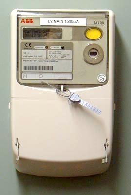 Panel-mounted solid-state electricity meter, connected to 2MVA three-phase electricity substation. Remote current and voltage sensors. Capable of being read and programmed remotely by modem and locally by infra-red. photo taken by me and hereby licensed as follows. 19:03, 9 Dec 2004 (UTC)